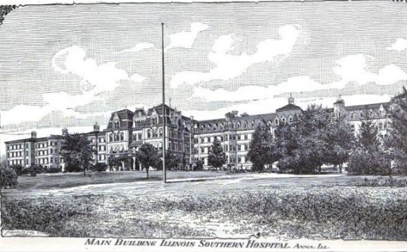 Anna State Hospital (later C.L. Choate Mental Health and Developmental Center)